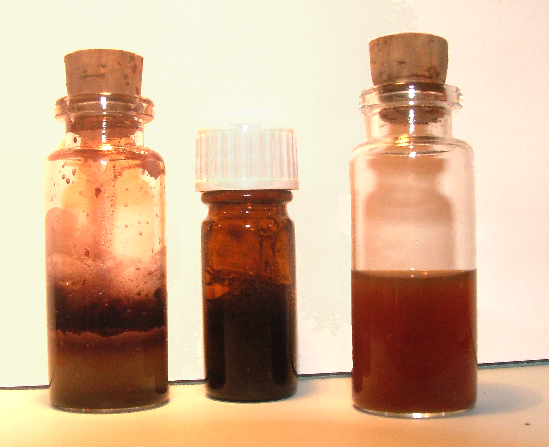 Essences I and II of the self-made iron gall ink with the already mixed ink. These are the final ingredients of homemade iron gall ink. On the left is a solution of iron and vinegar. The iron was (probably) obtained from nails left to sit in the vinegar for a week. On the right is an oak extraction in water; the extraction was performed over a bunsen burner. These two solutions are kept separate until immediately before use. In the brown glass in the center is the ready ink, recently mixed from the two solutions.)